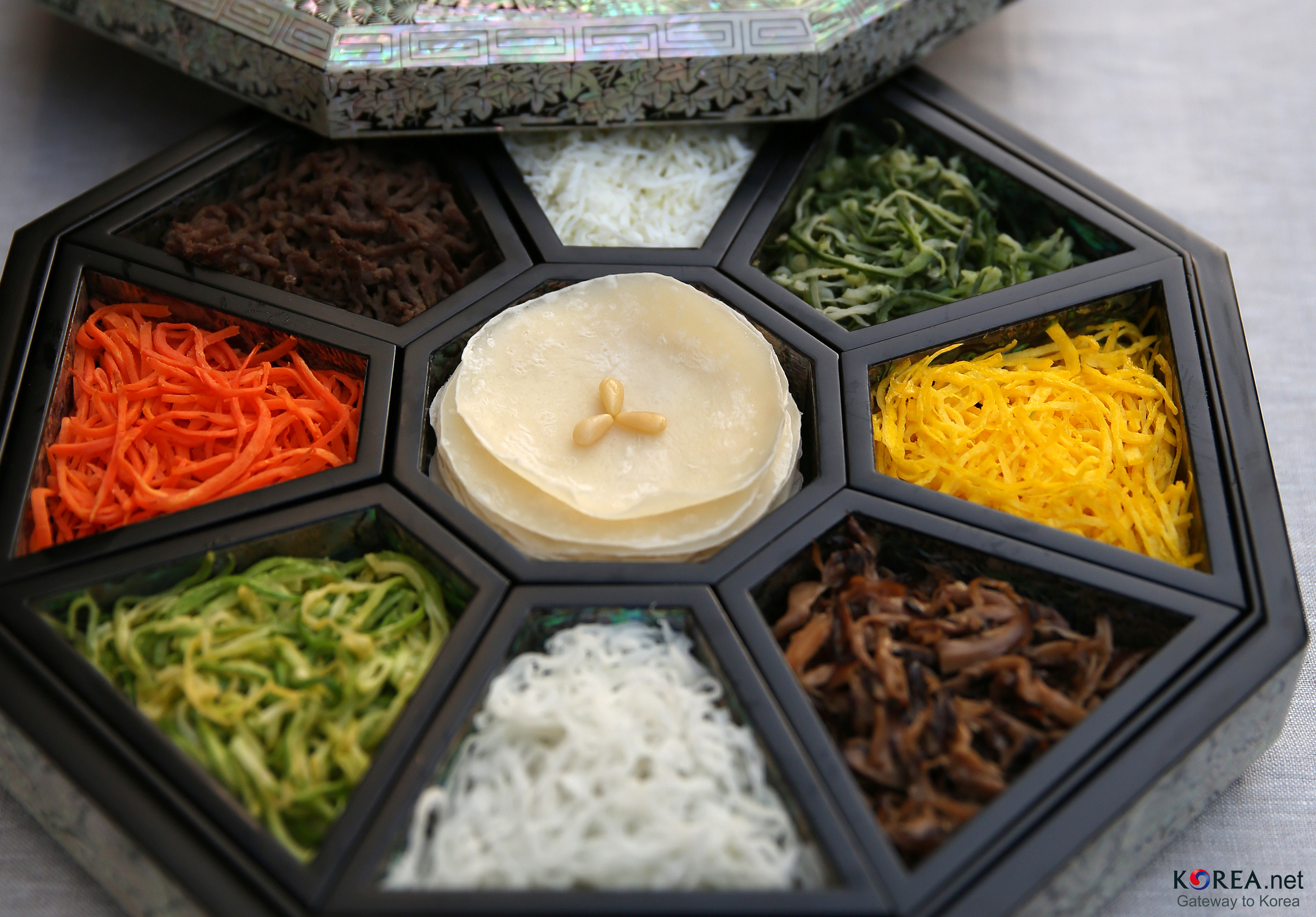 Ariang-themed concert at the Nokjiwon Garden of Cheong Wa Dae October 27, 2013 Nokjiwon Garden, Cheong Wa Dae, Seoul Related Article Cheong Wa Dae (English) Arirang echoes across Cheong Wa Dae -English- Arirang echoes across Cheong Wa Dae -Deutsch- Arirang erklingt im Cheong Wa Dae -español- Arirang resuena en Cheong Wa Dae -中文- 在青瓦台回荡起阿里郎的旋律 -Việt- Arirang được biểu diễn tại Nhà Xanh -日本語- 大統領府に響き渡った「アリラン」 -française- Arirang résonne à Cheong Wa Dae -русский – Чхонвадэ наполняется звуками Ариран -Arabic- أصوات أريرانج تتردد في البيت الأزرق Ministry of Culture, Sports and Tourism Korean Culture and Information Service ( Jeon Han 문화융성의 우리 맛, 우리 멋 아리랑공연 2013.10.27. 녹지원, 청와대 문화체육관광부 해외문화홍보원 코리아넷( 전한